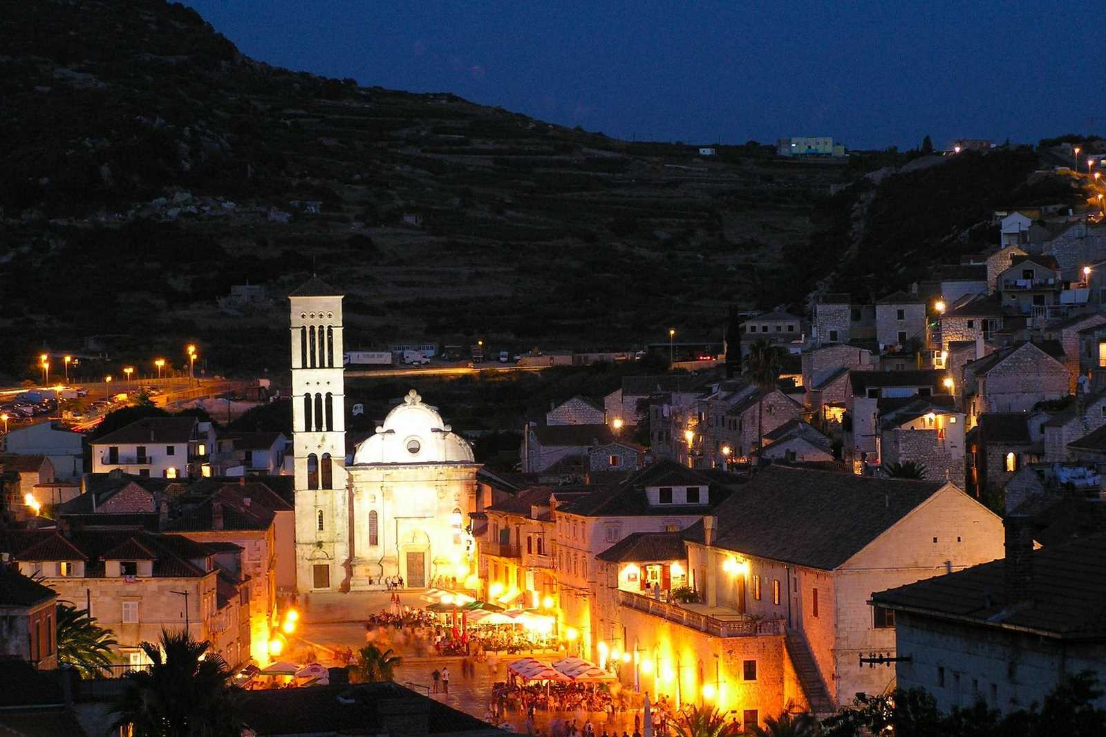 Hvar, Croatia